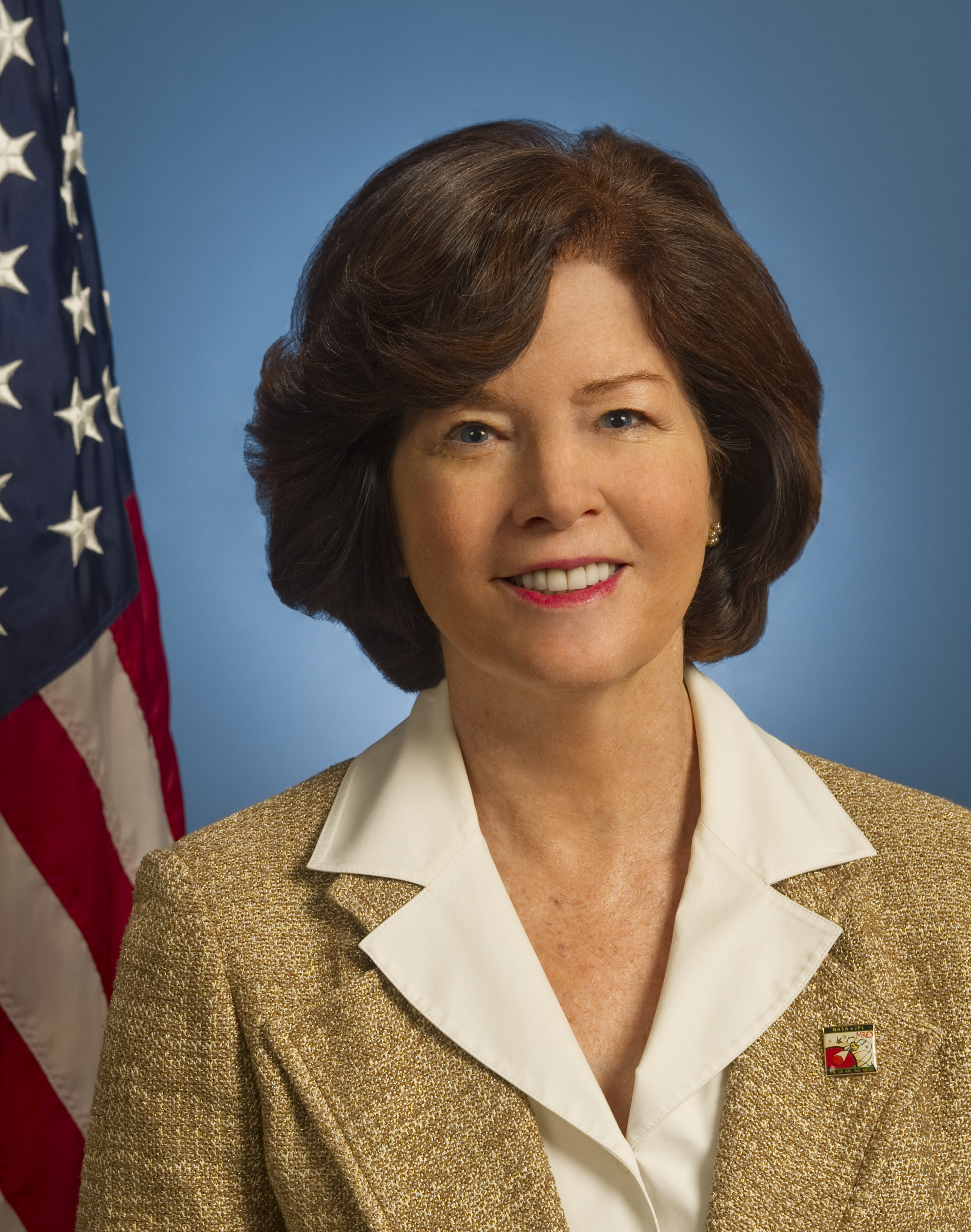 Dr. Colleen Hartman has been NASA Goddard's deputy center director for Science, Operations and Performance since July 16, 2012. Image Credit: NASA Goddard/Bill Hrybyk